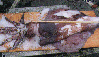 Largest documented Taningia danae specimen, measuring 160 cm in mantle length and 161.4 kg in weight (not 61.4 kg as originally reported; see Roper & Jereb, 2010:266[1]). ↑ Roper, C.F.E. & P. Jereb (2010). Family Octopoteuthidae. In: P. Jereb & C.F.E. Roper (eds.) Cephalopods of the world. An annotated and illustrated catalogue of species known to date. Volume 2. Myopsid and Oegopsid Squids. FAO Species Catalogue for Fishery Purposes No. 4, Vol. 2. FAO, Rome. pp. 262–268.